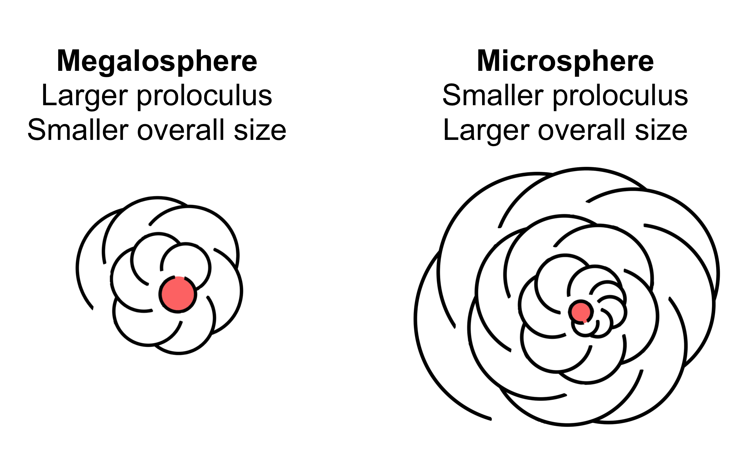 Foraminifera consist of two separate morphs throughout their life cycle—the megalosphere and the microsphere. Despite the name, the megalosphere is the smaller of the two, as they derive their respective names from the size of the proloculus, or first chamber, rather than from the size of the complete test.